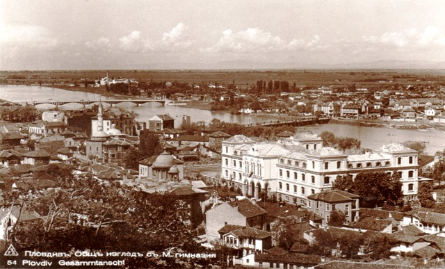 Plovdiv, Old Bridge and Bridge at Gerdjika